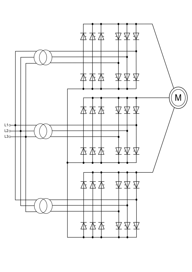 Cycloconverter for three-phase alternating current.